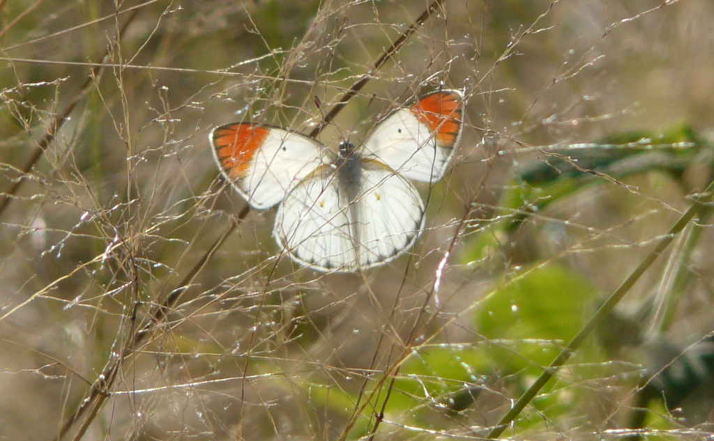 A male Red tip of the dry season form at Dambari Field Station in Matabeleland, Zimbabwe